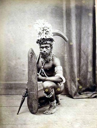 Warrior with wicker shield and parrying club, Solomon Islands. Original albumen photograph, c 1880's (mounted on album page with photograph of the Suez Canal by Zangaki verso)